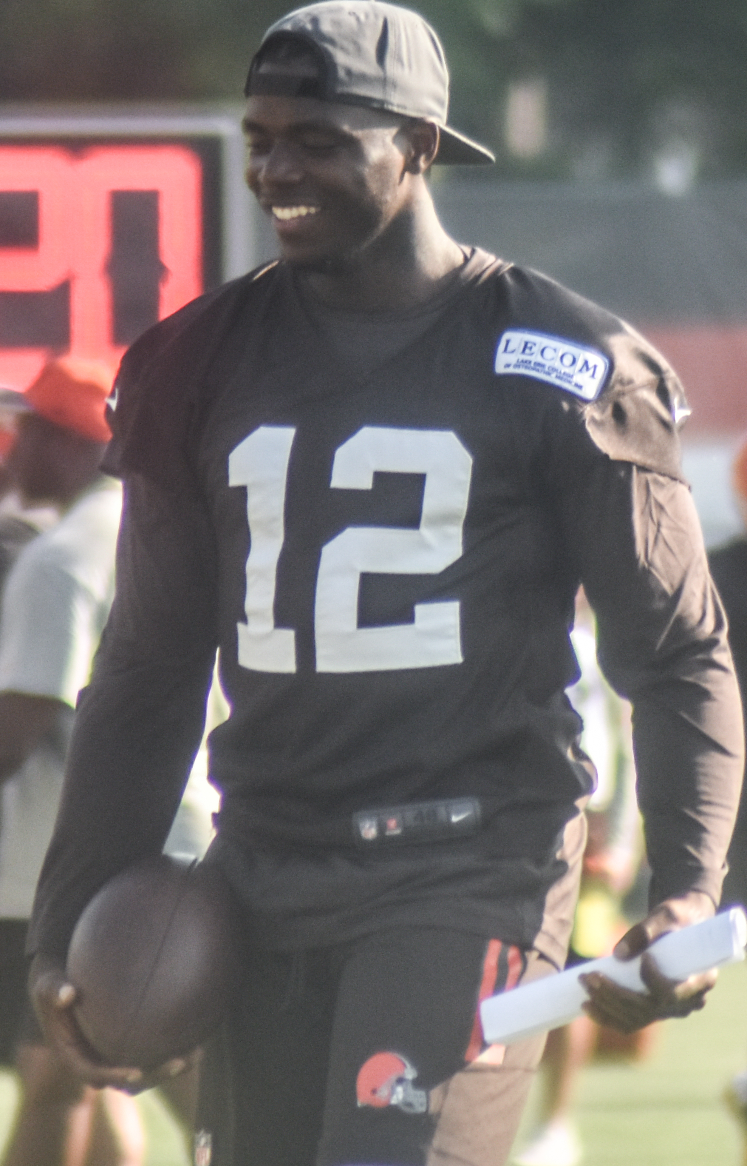 Josh Gordon